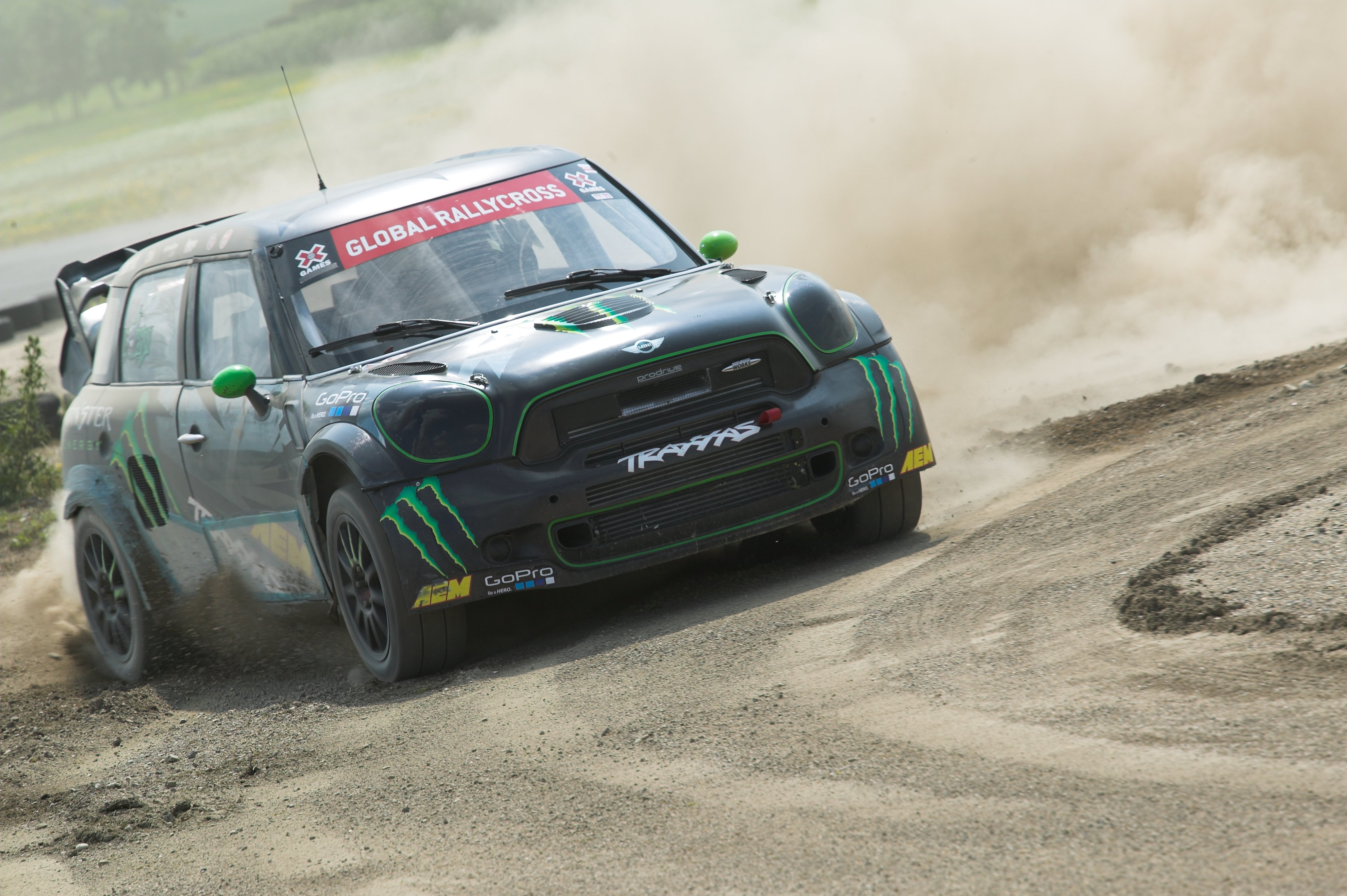 Prodrive created this rallycross car